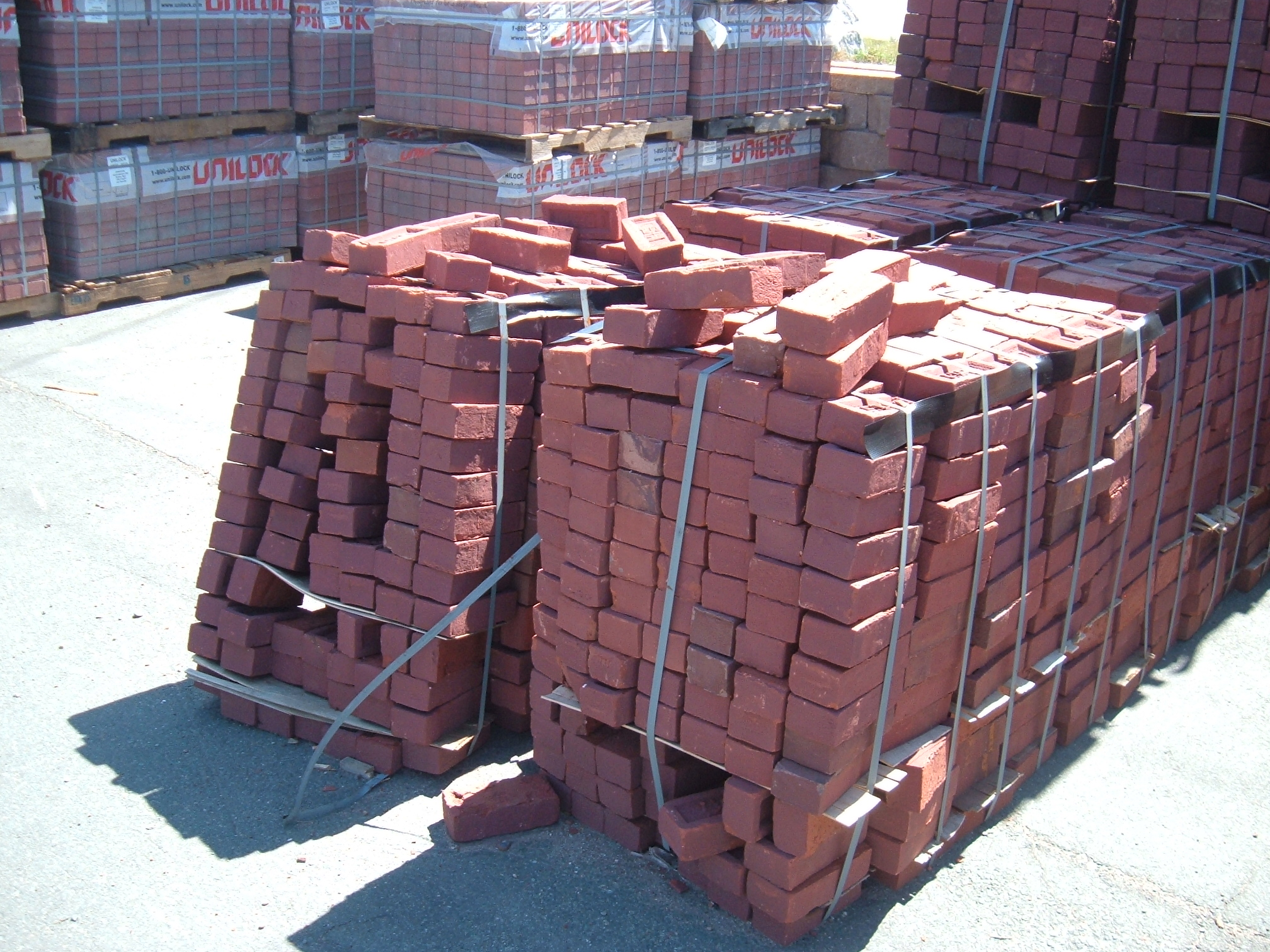 Stacks of bricks. One of a series of common objects I photographed in the summer of 2005 to illustrate Wikipedia:Basic English picture wordlist. --agr 21:08, 3 August 2005 (UTC)